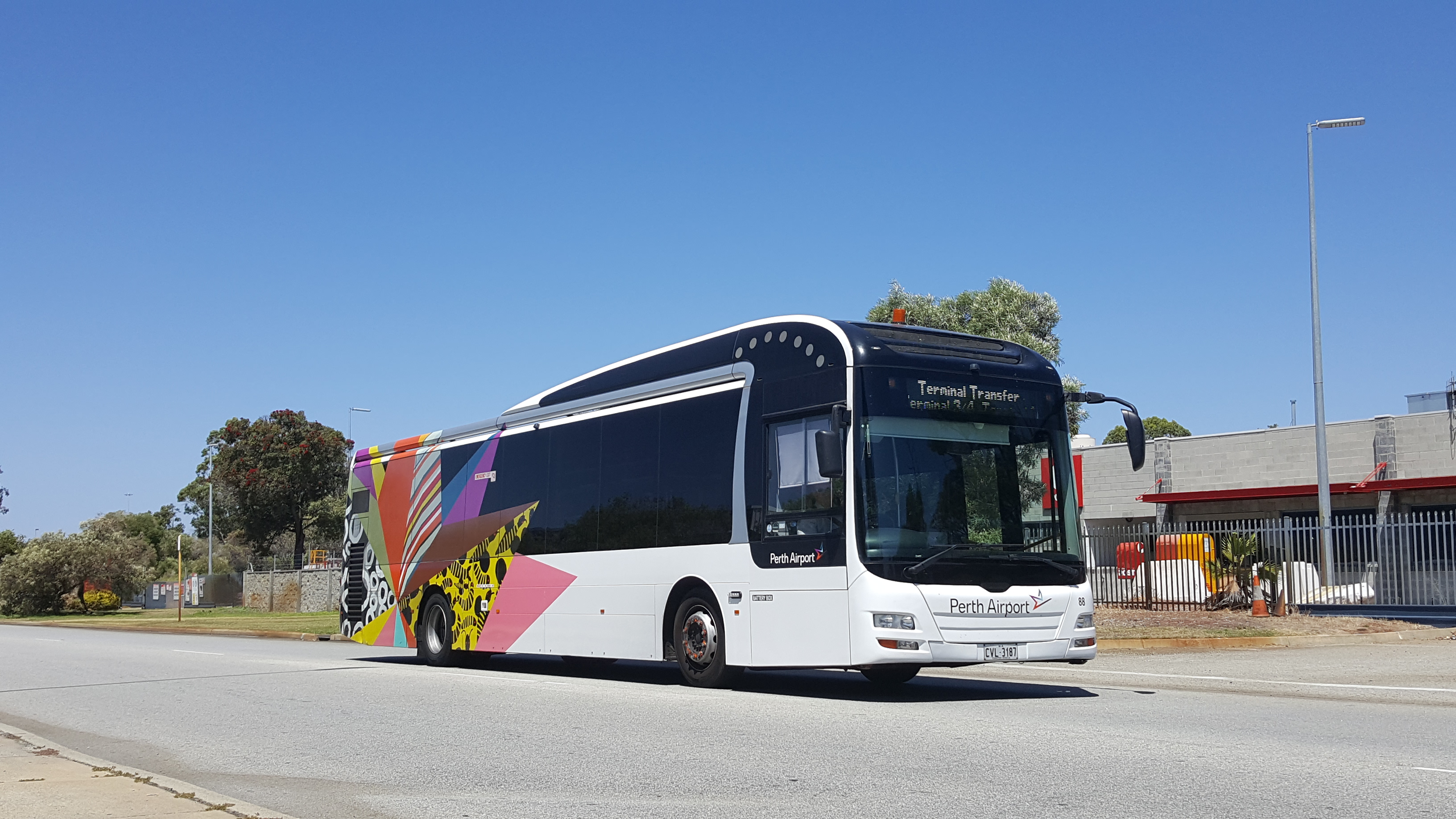 A Gemilang Coachworks Lion's City Hybrid-bodied MAN NL323F, registered as CVL3187 and operated by Carbridge Perth; seen at Boud Avenue in Perth Airport.